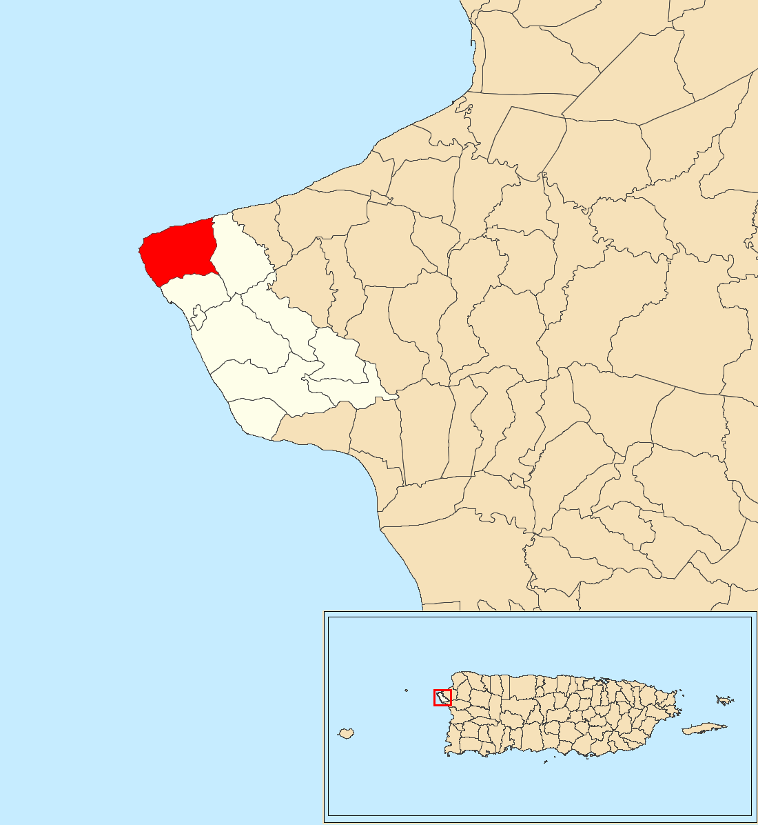 Puntas, Rincón, Puerto Rico locator map